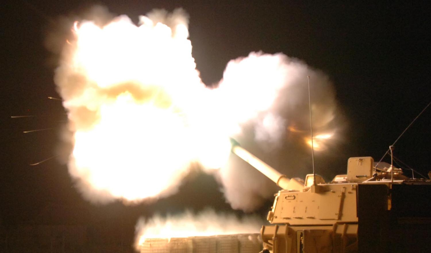 Firing teams "Gunny" and "Storm" from the 2nd Battalion, 82nd Field Artillery, 3rd Brigade Combat Team, 1st Cavalry Division fire a M109A6 Paladin, a Self-Propelled Howitzer, into the Diyala River Valley in support of Operation Lightning Hammer, which was just underway when the rounds were launched late into the night, Aug. 13.